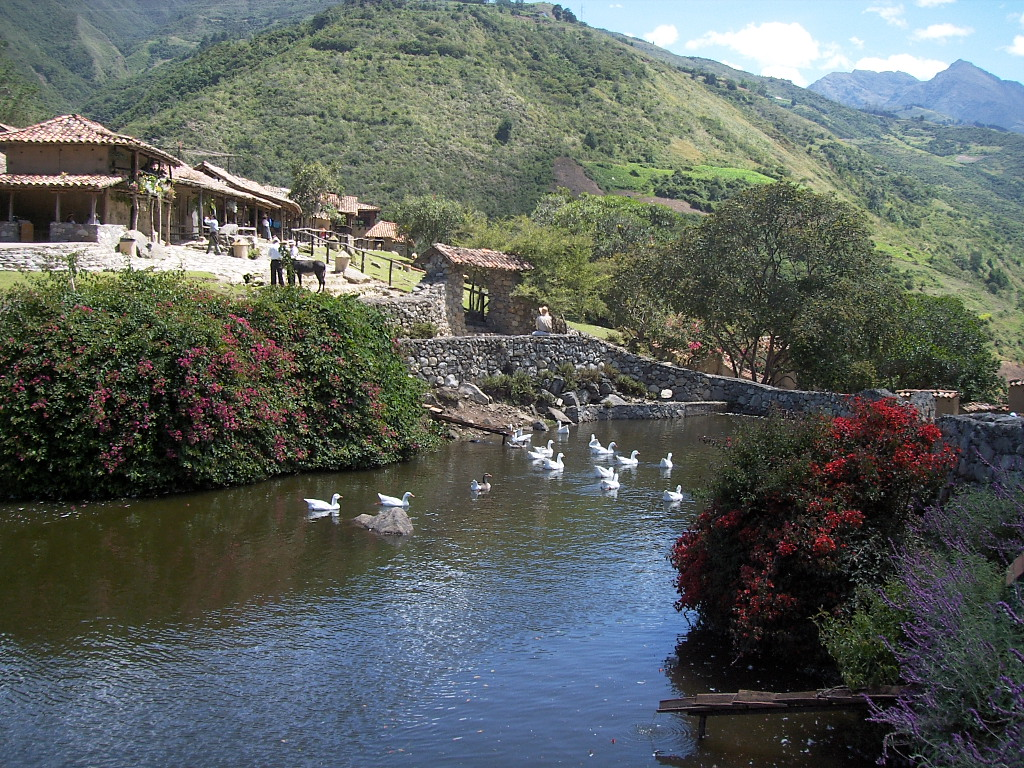 Los Aleros Park, Mérida, Venezuela.